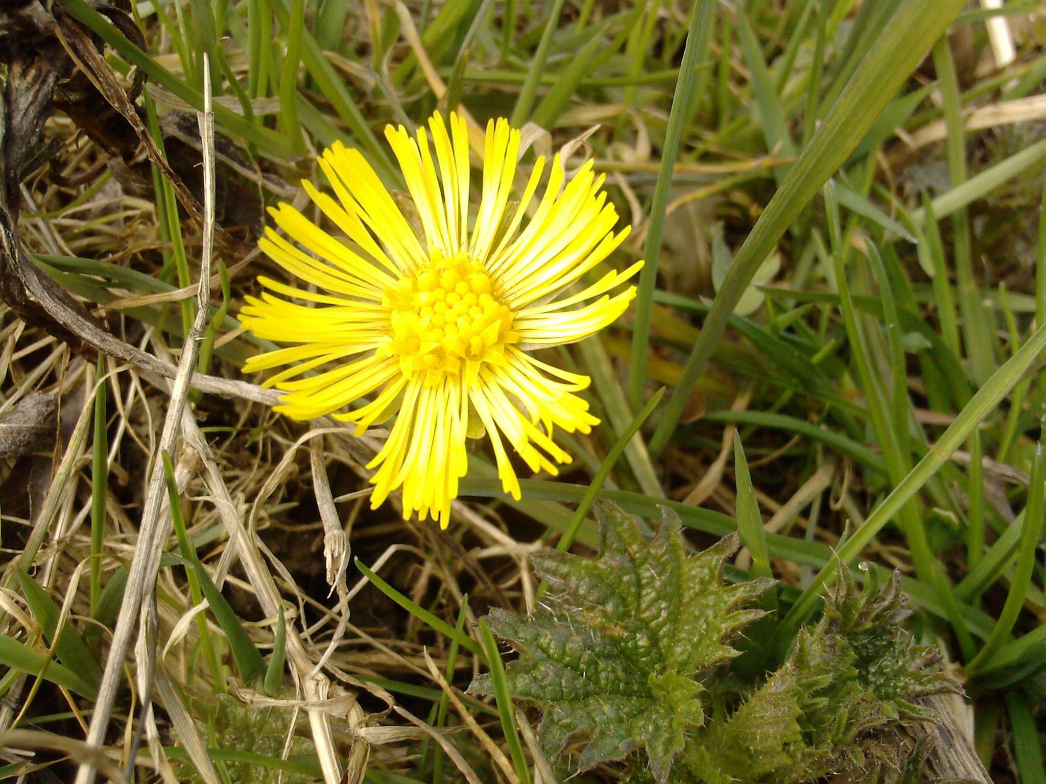 Tussilago farfara